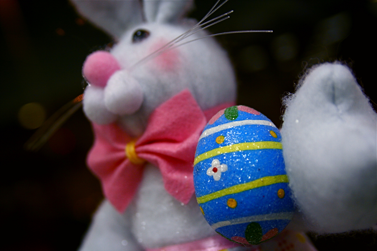 This Easter bunny is decorating the main post office in Grand Rapids, MI